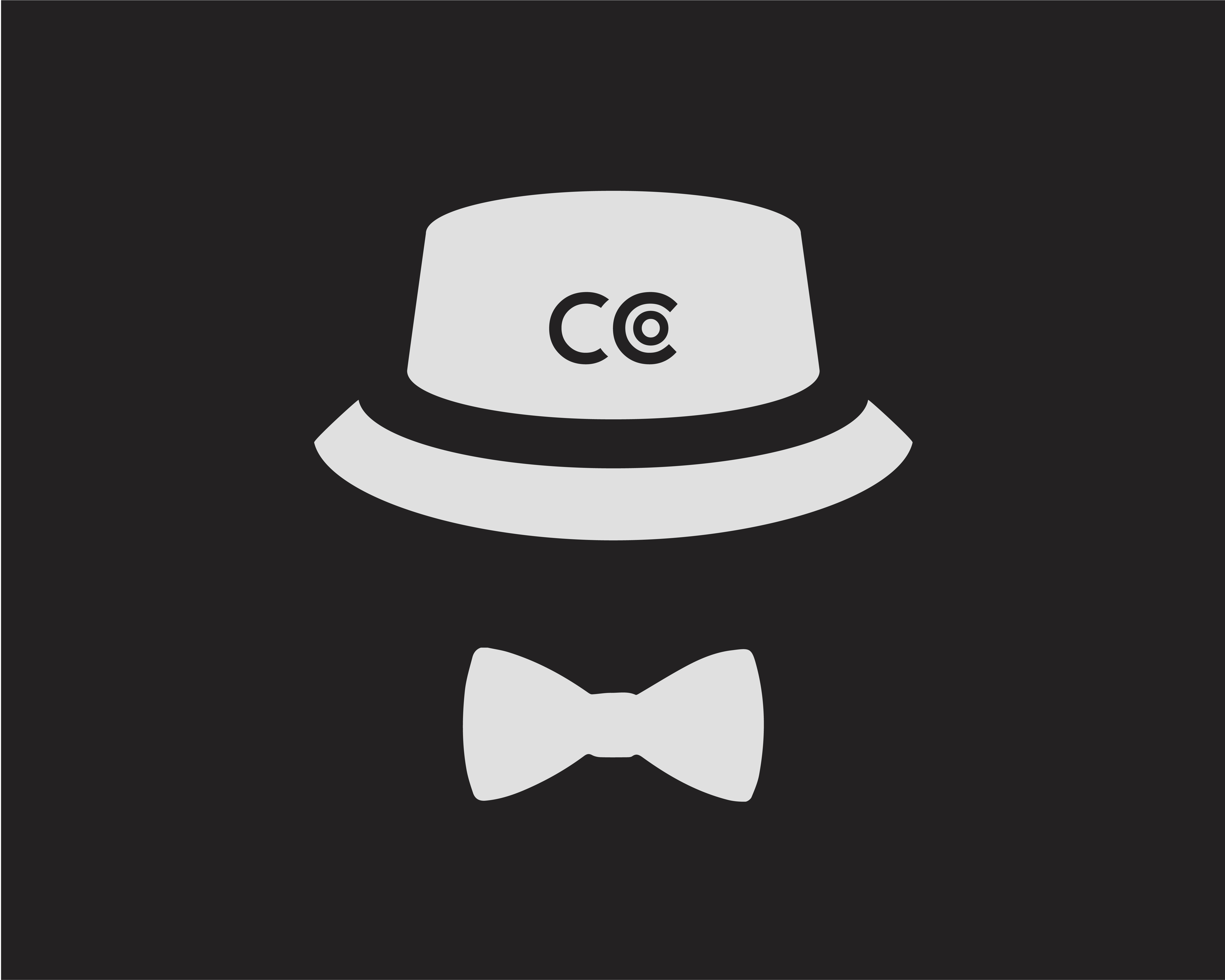 Caddyshack to Corner Office Logo